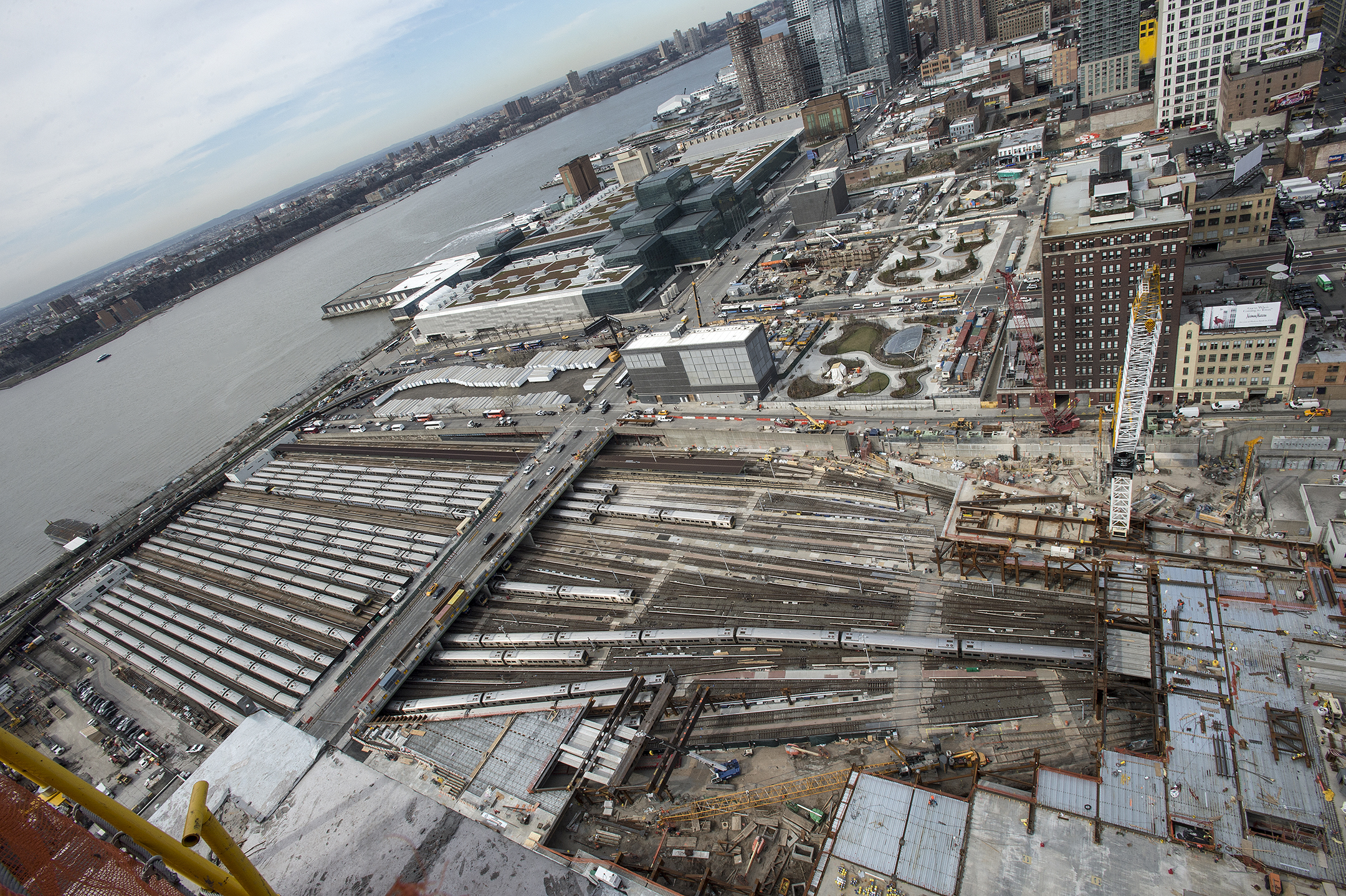 Work is progressing over LIRR West Side Yards as part of the Hudson Yards Real Estate Development. Photo: Metropolitan Transportation Authority / Patrick Cashin